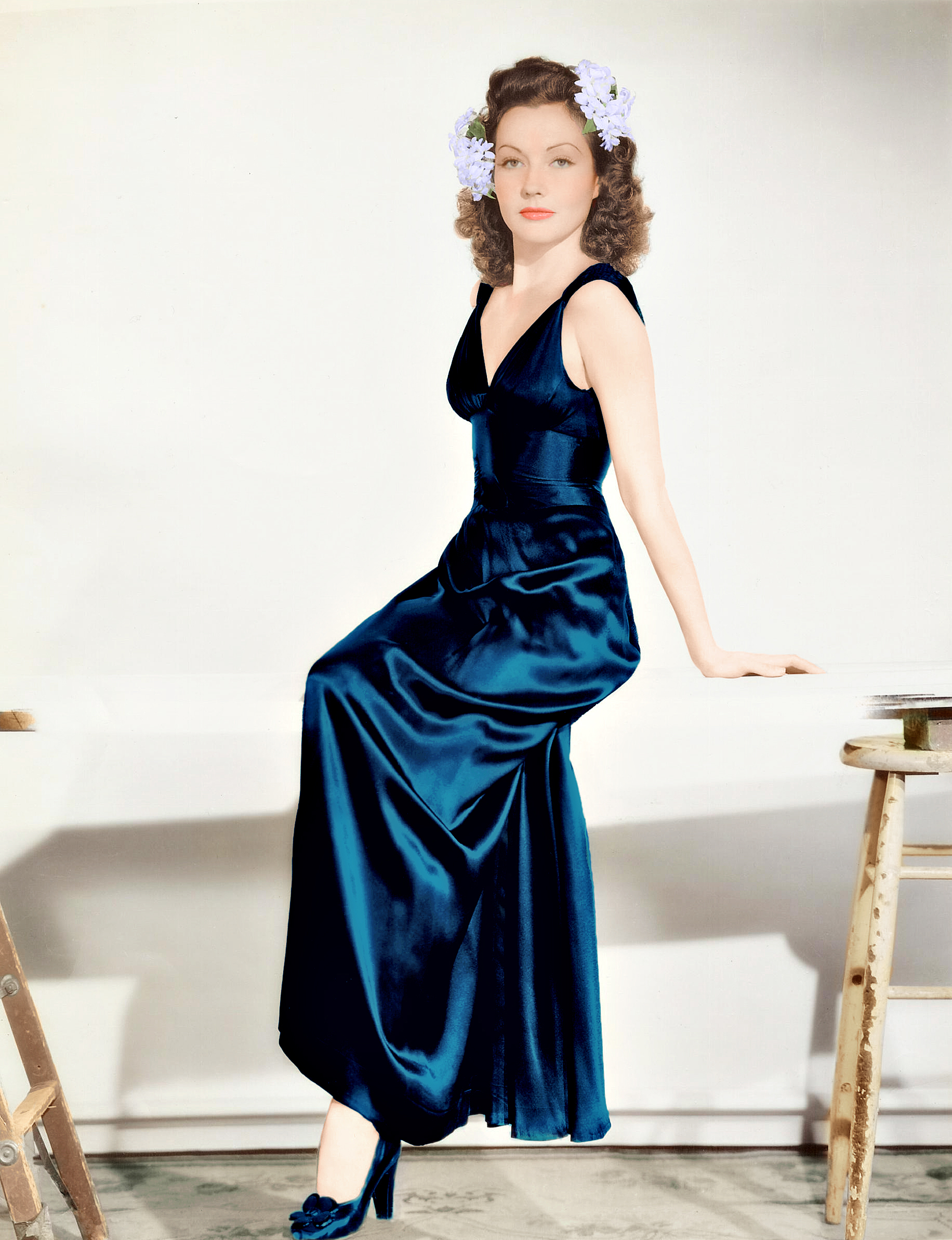 Pin-up photo of Lynn Bari for the Oct. 13, 1944 issue of Yank, the Army Weekly, a weekly U.S. Army magazine fully staffed by enlisted men.